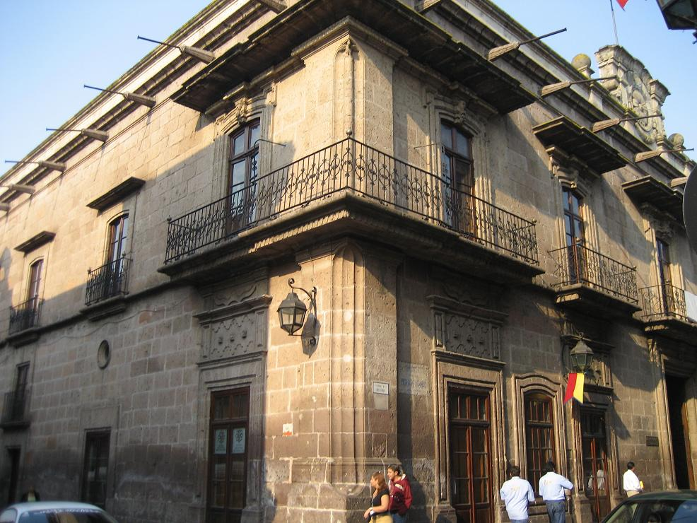 Casa de Isidro Huarte, suegro de Iturbide / House of Isidro Huarte, Iturbide's father in law